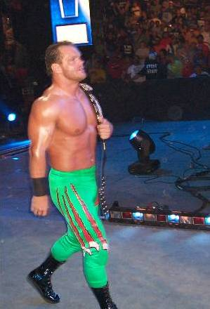 My personal photo (Taken 09/20/2005 in Lubbock, TX at SmackDown! Taping)